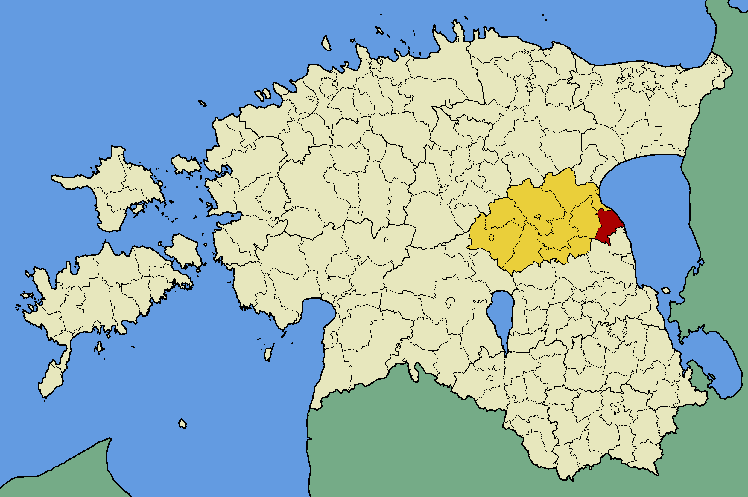 Map of Estonia with borders of municipalities (parishes). Jõgeva county and Pala municipality emphasized.